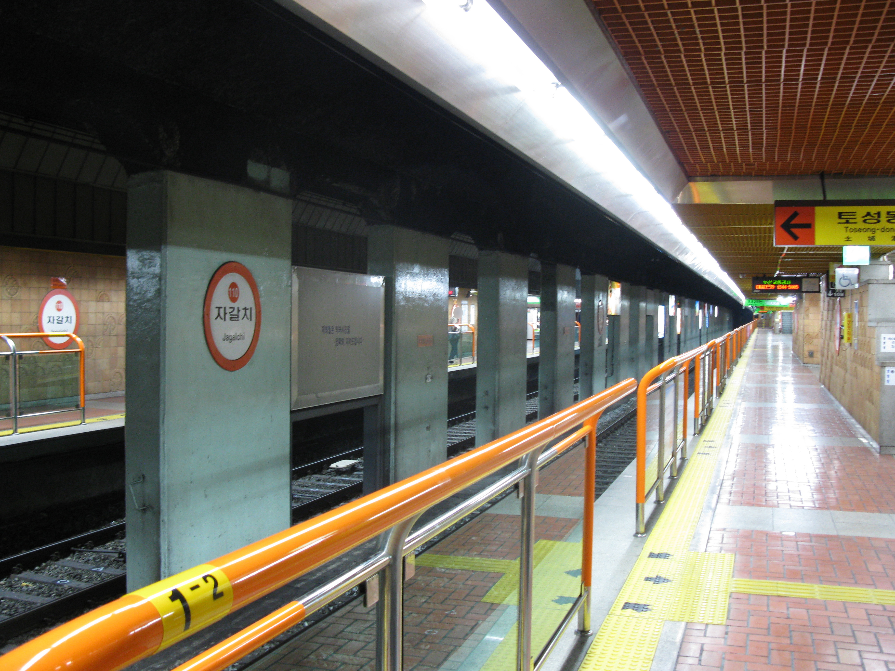 Jagalchi Station platform (Busan Subway Line 1)